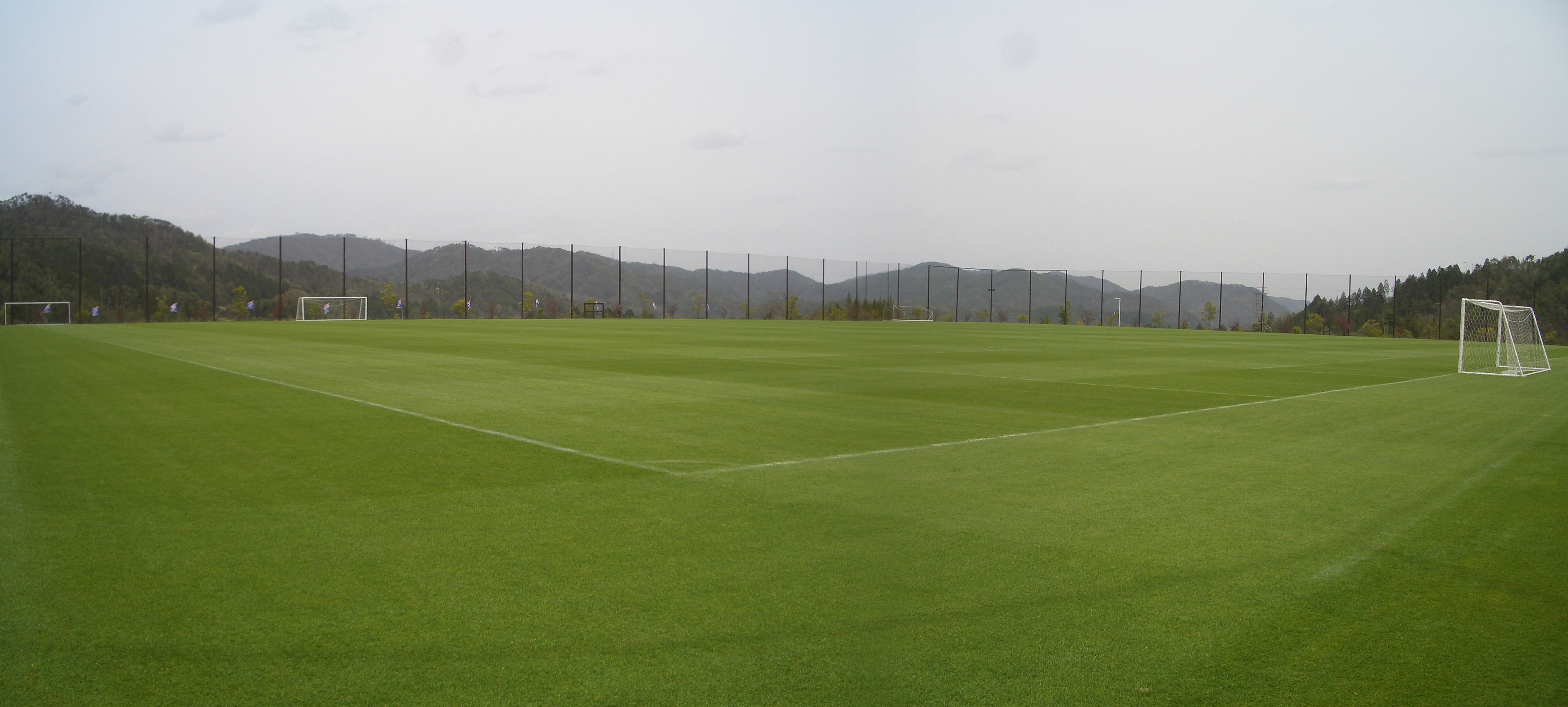 Yoshida Soccer Park, Akitakata, Hiroshima prefecture, Japan